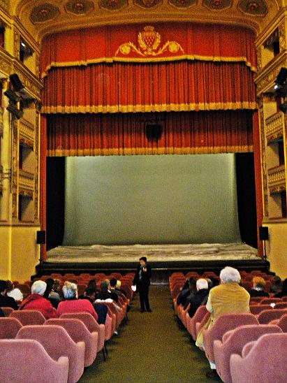 board